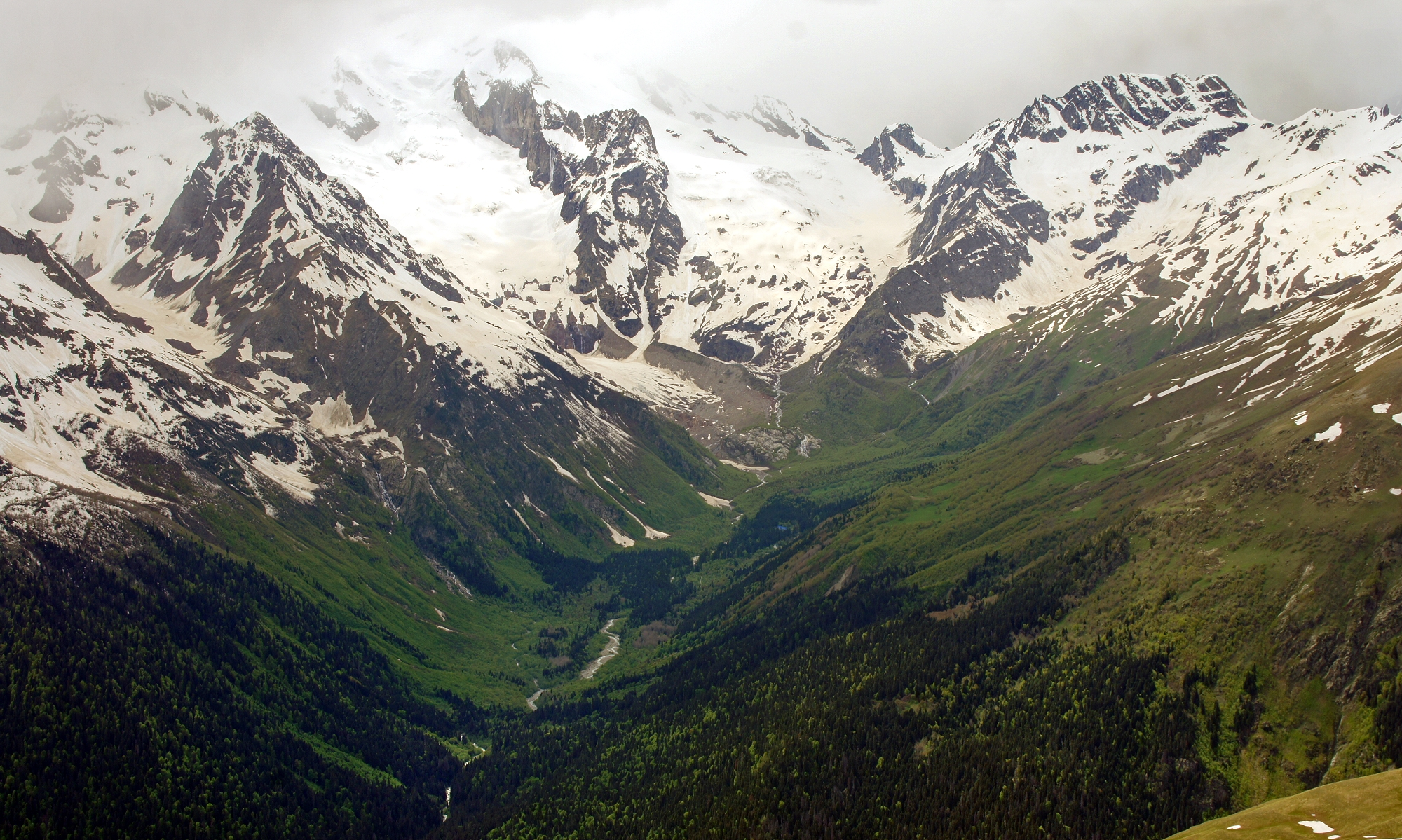 Alibek river, Caucasus, Russia